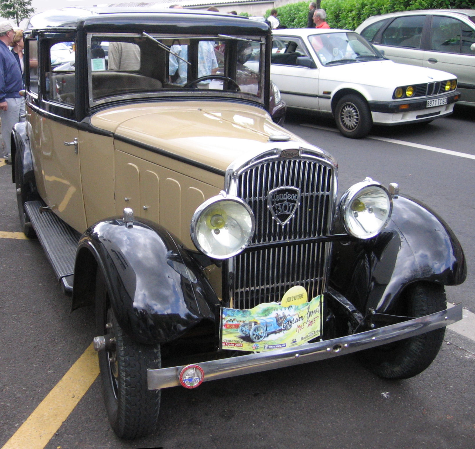 Peugeot 301 - Camera : Canon Powershot A510, 3 Megapixels picture (cropped and edited).